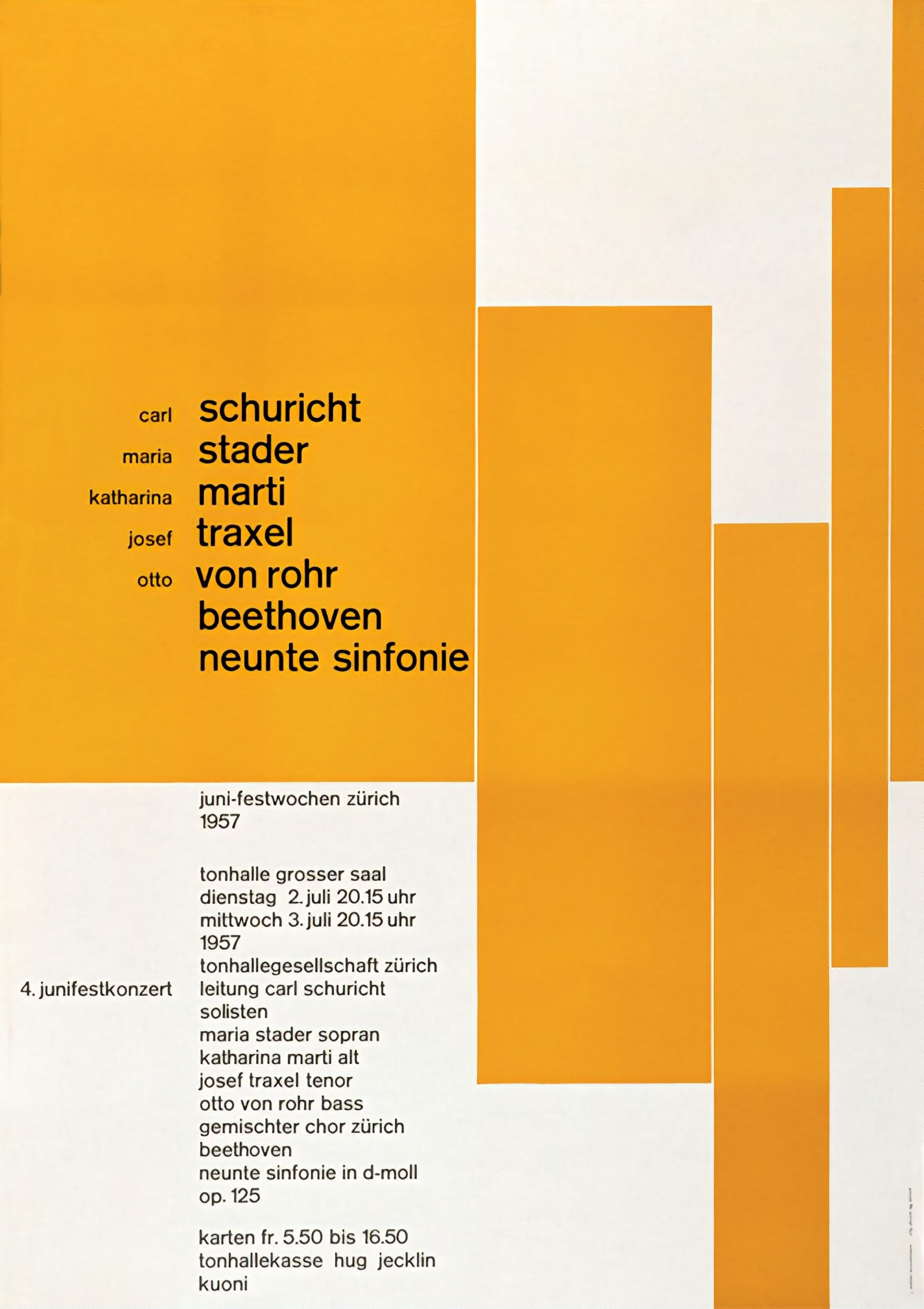 Poster for Juni-Festwochen Zürich (1957) designed by Josef Müller-Brockmann